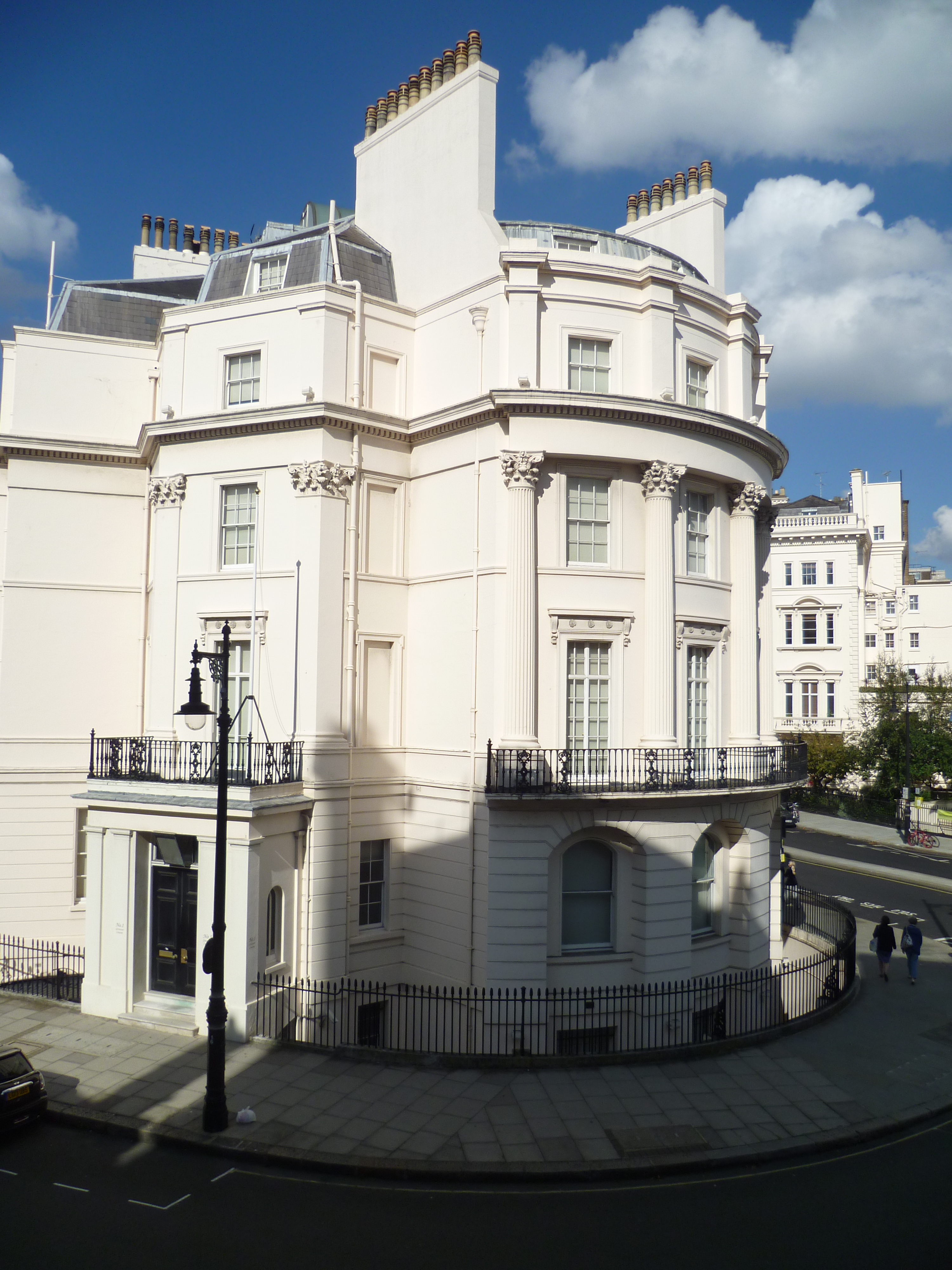 Wilton Crescent